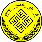 This should be the real logo